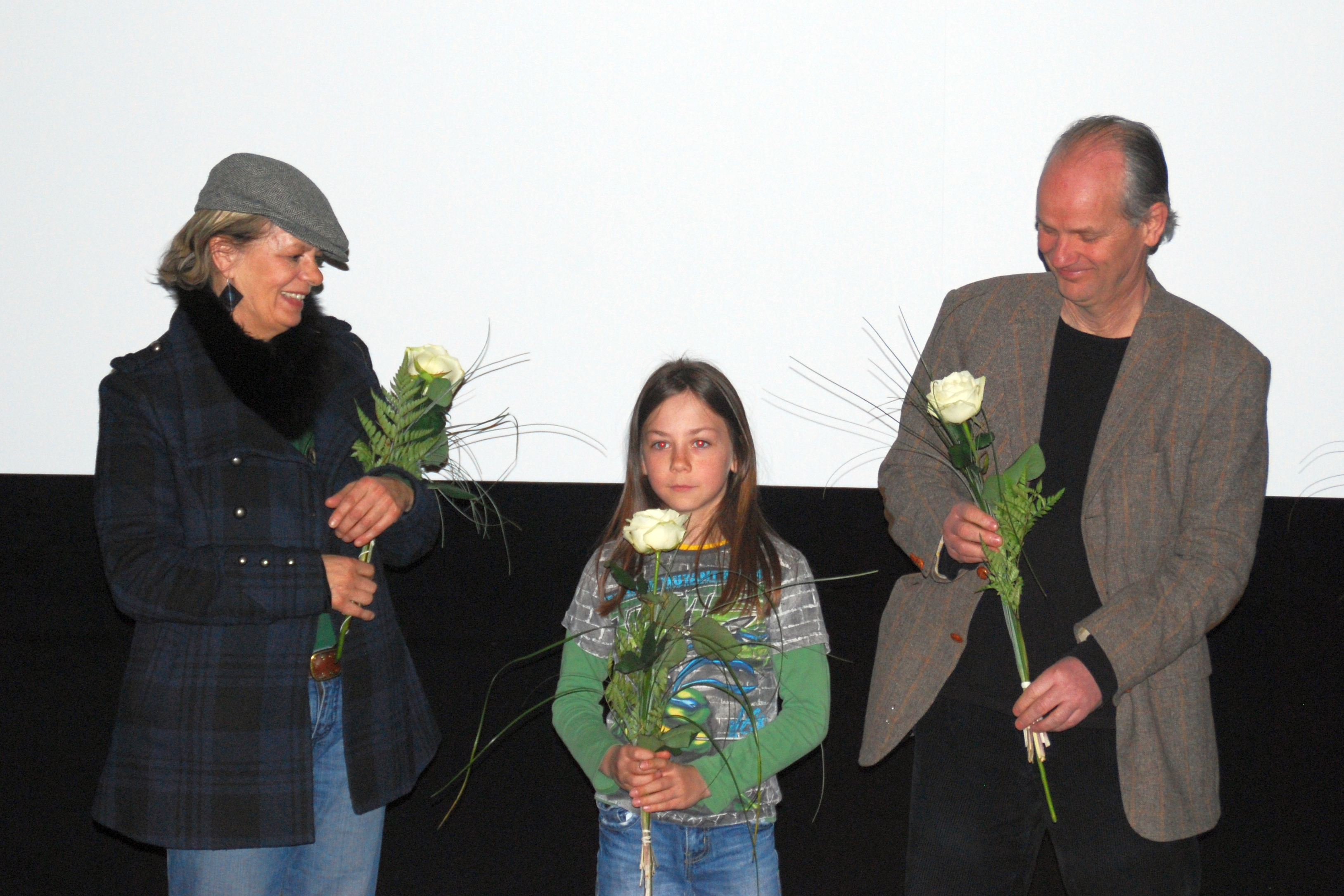 Three of the leading actors (Christine Heinze, Tristan Göbel, Justus Carriere) of the movie "Vergessen" at the premiere.